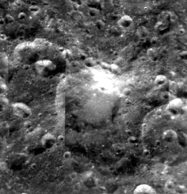 Evdokimov lunar crater (Clementine image)